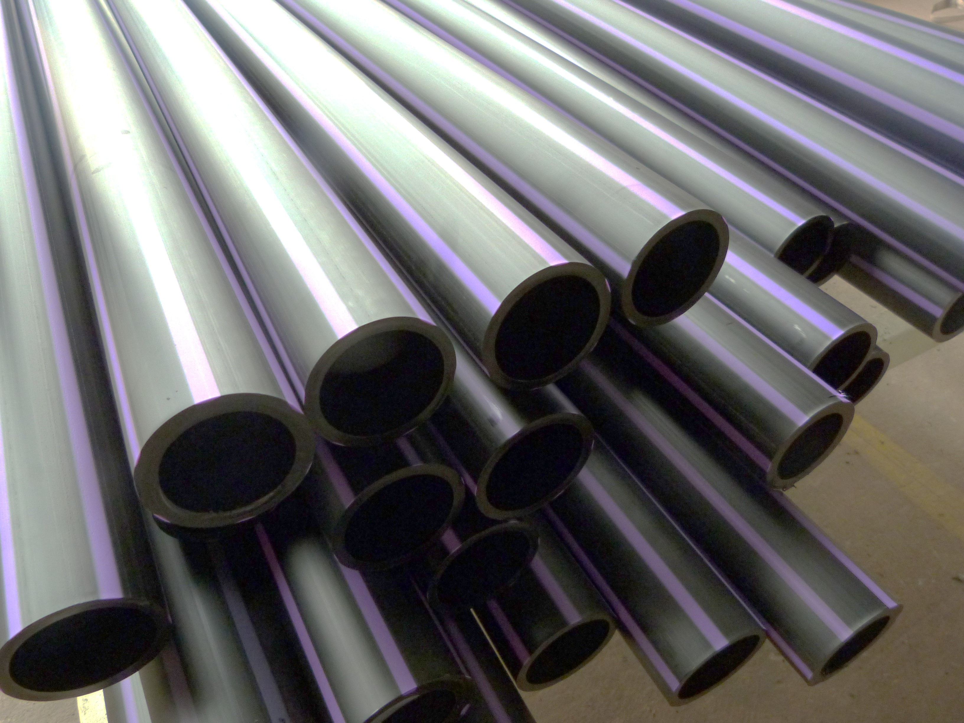 Plastic Pipe lengths manufactured in Australia by Extruding HDPE material (High Density Poly-Ethylene).